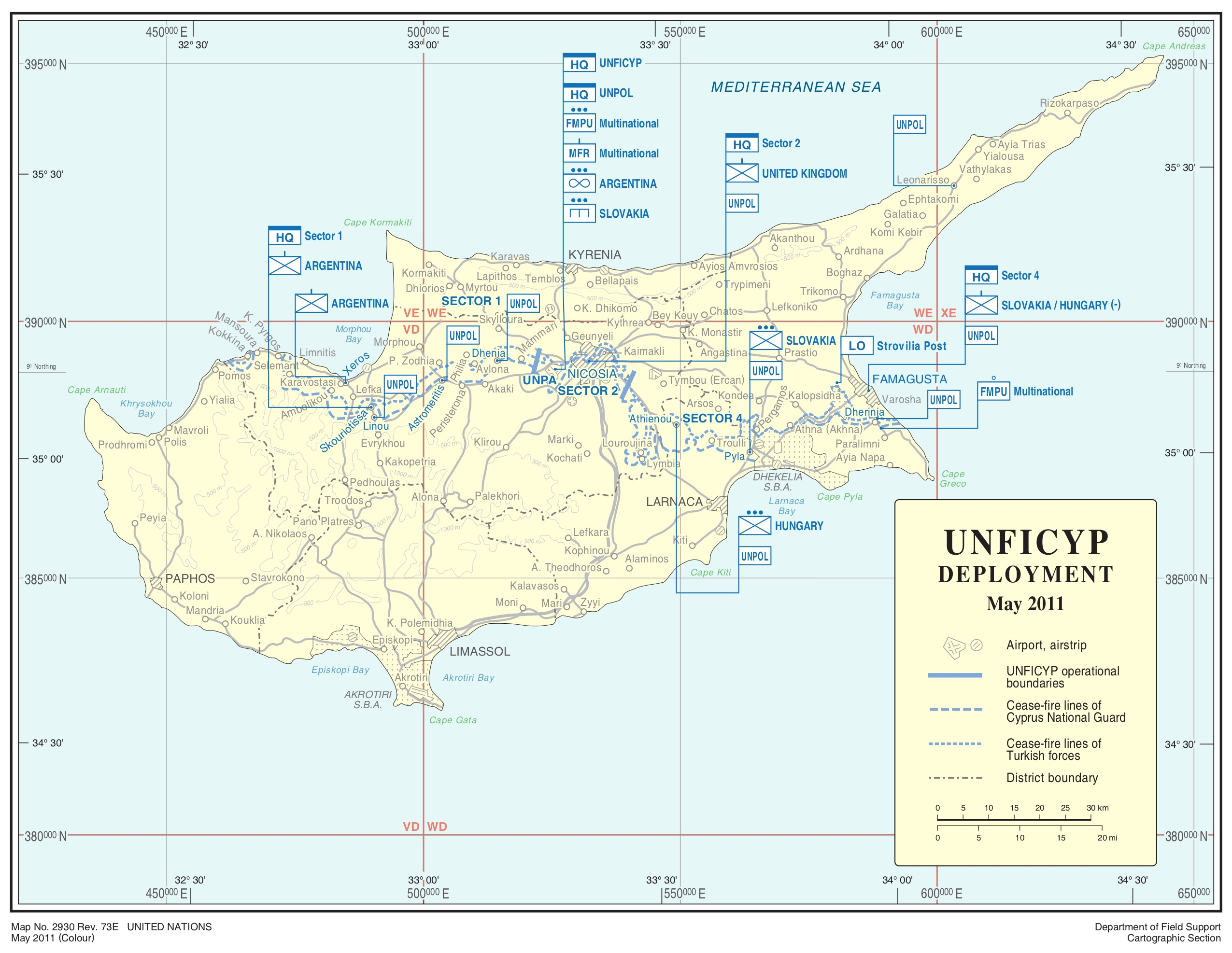 United Nations Peacekeeping Force in Cyprus desployment as of May 2011.